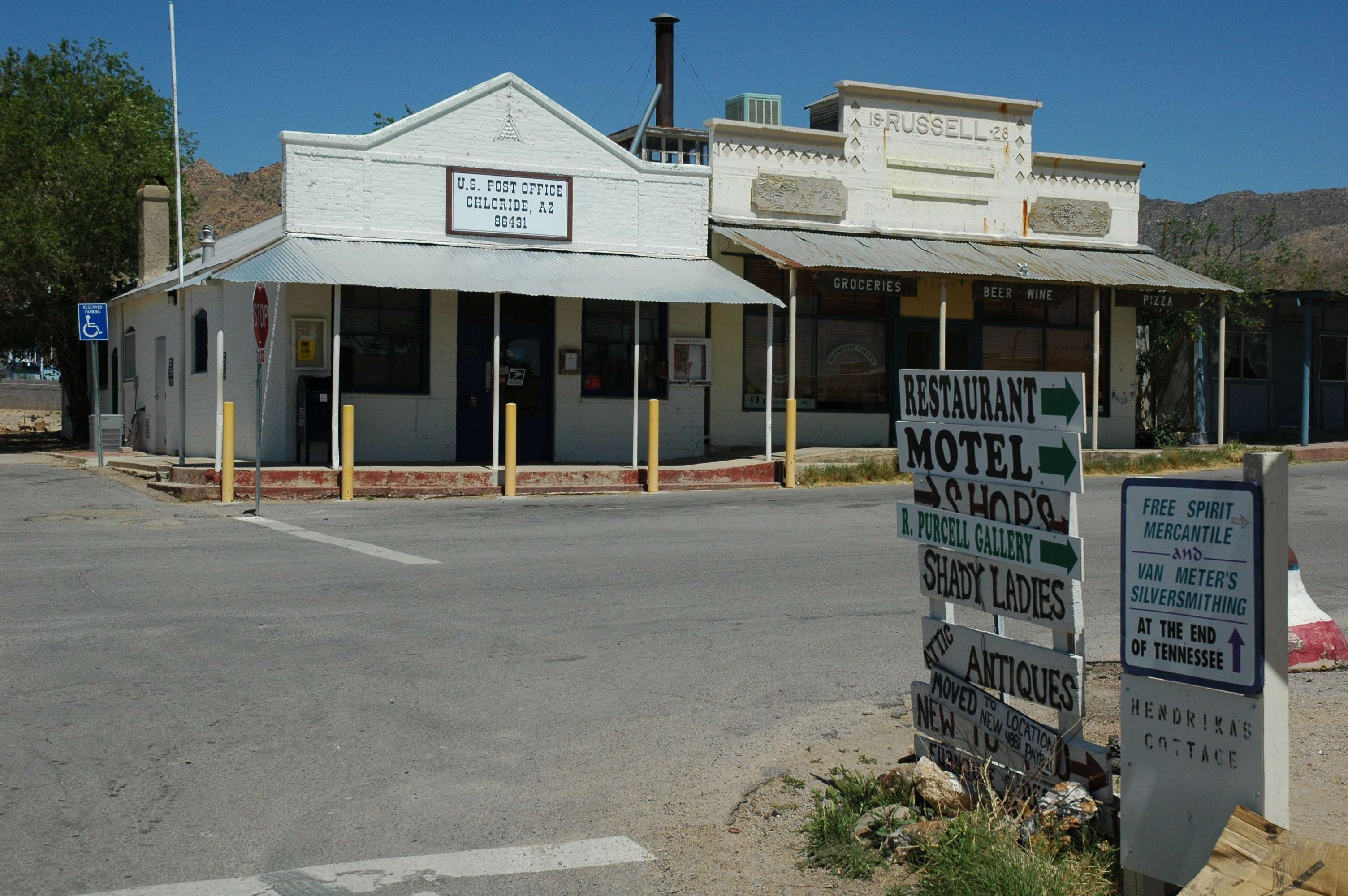 Bustling big-city Chloride (only the tumbleweeds are missing).